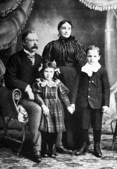 The family of the first Premier of Alberta, Canada. Clockwise from left: Alexander Cameron Rutherford, Mattie Rutherford (Birkett), Cecil Alexander Rutherford, Hazel Elizabeth Rutherford